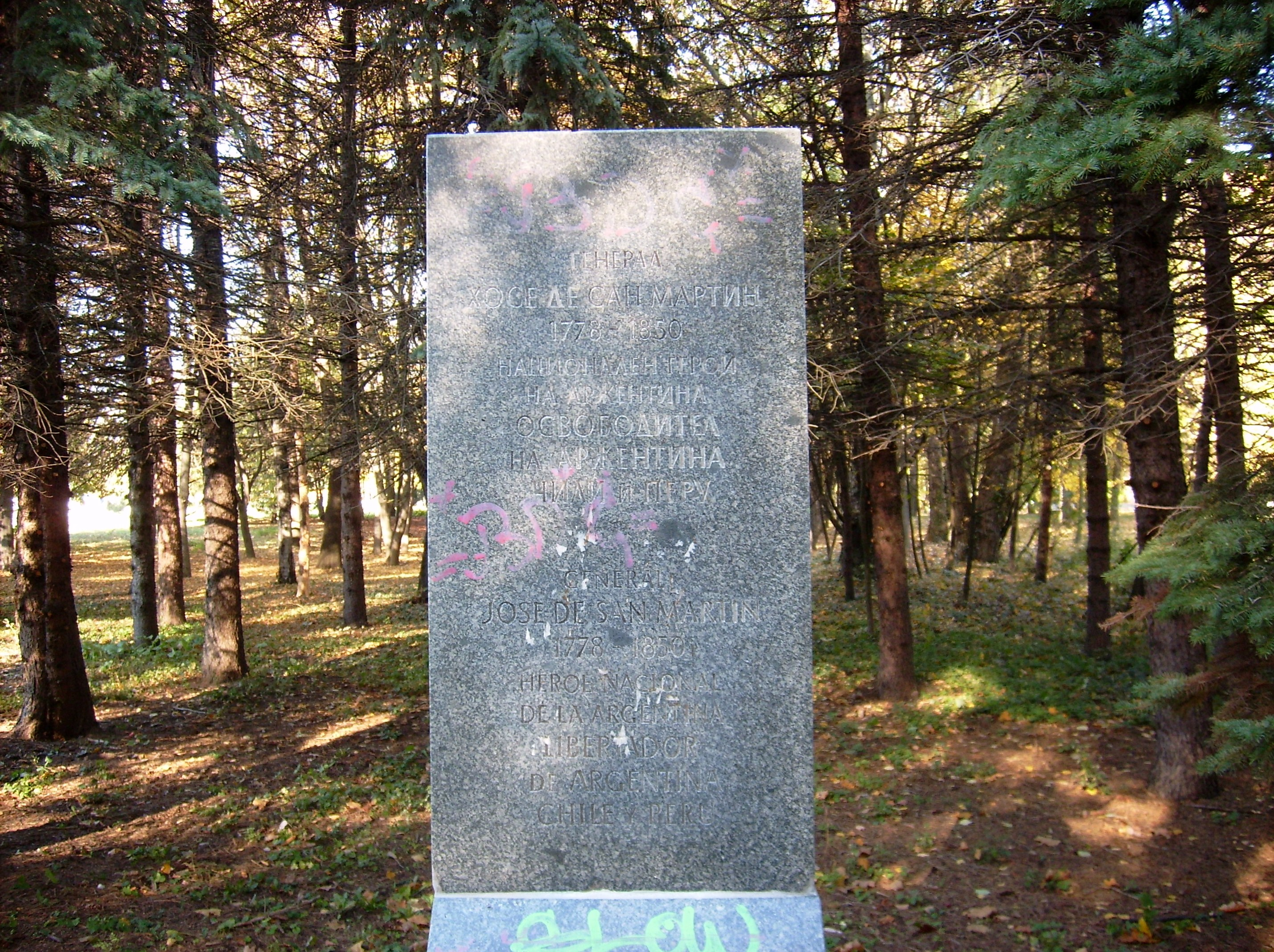 Monument of Jose de San Martin in Sofia, Bulgaria